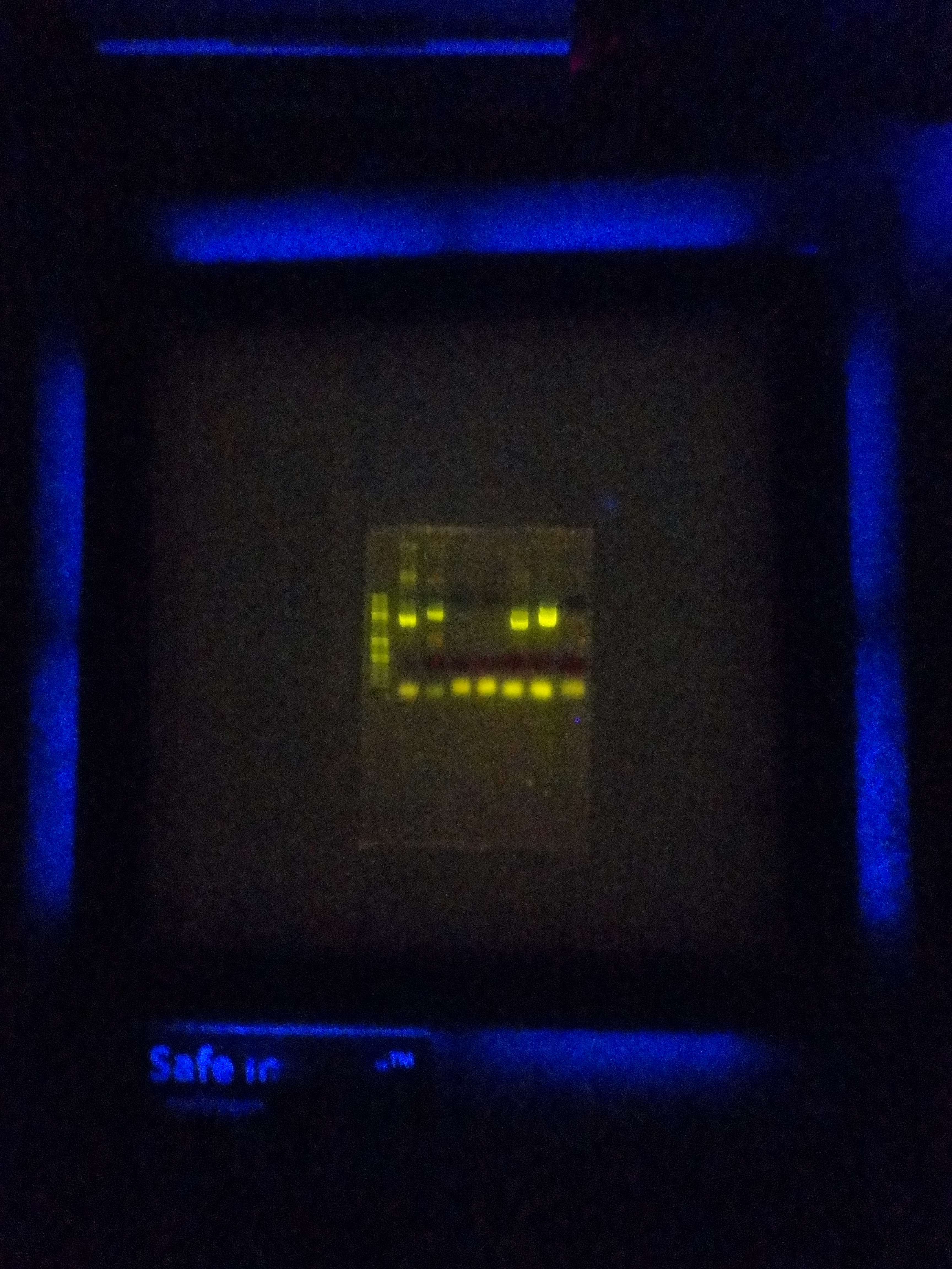 DNA Electrophoresis - SYBR Green dye